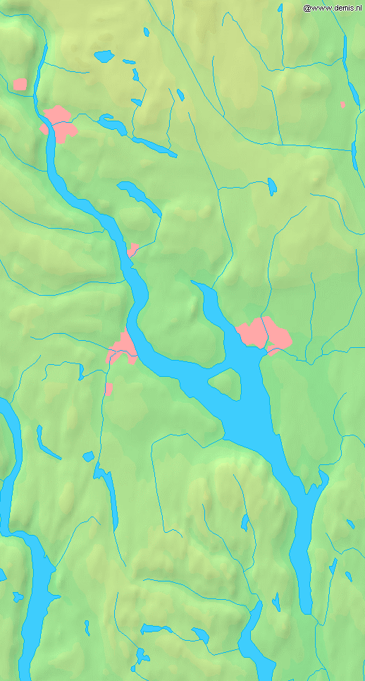 Mjøsa, larget lake in Norway. Bounding box West 10.3°, South 60.3°, East 11.4°, North 61.3°. Center at 60°48′00″N 10°51′00″E / 60.80000°N 10.85000°E.